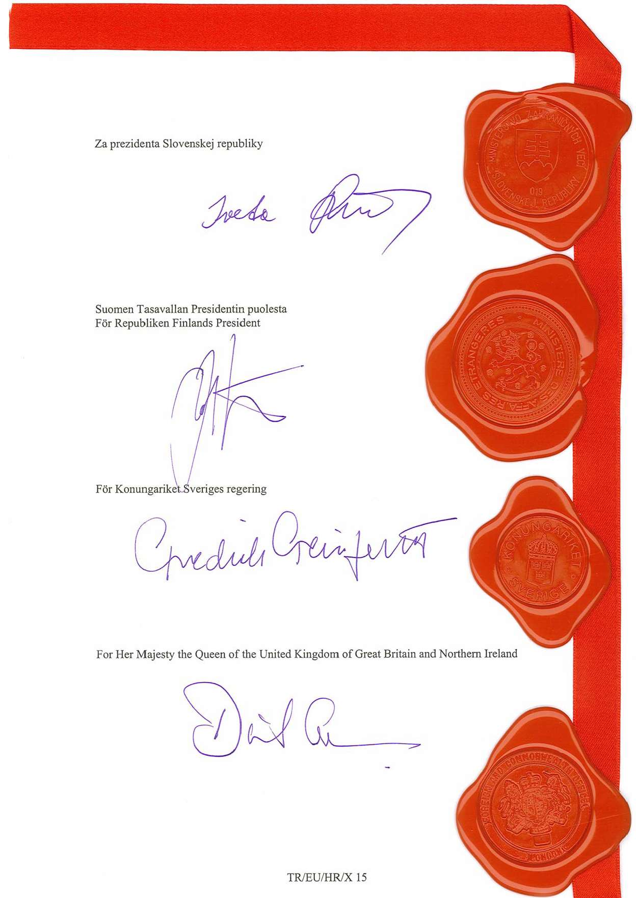 Treatys concerning the accession of the Republic of Croatia to the European Union - Signature Page